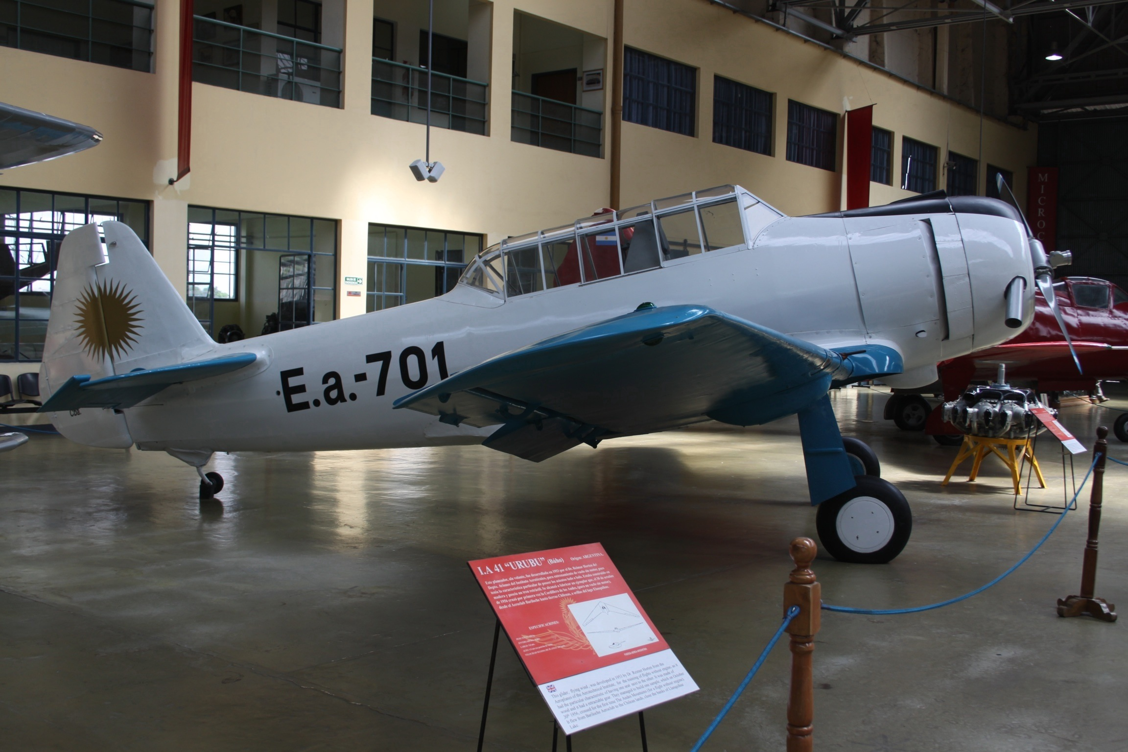 At Moron Museo Nactional De Aeronautica